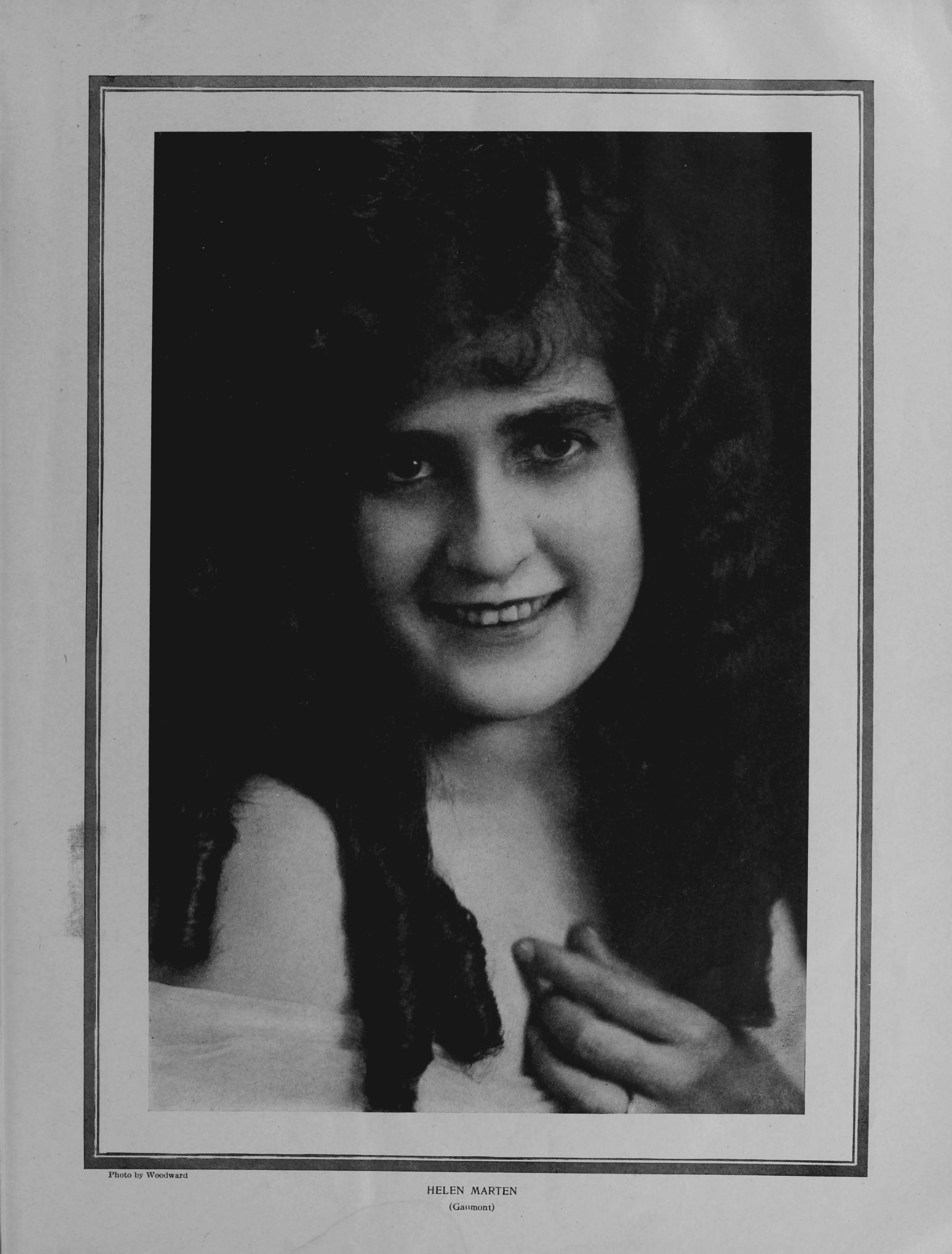 Actress Helen Marten, photo by Woodward